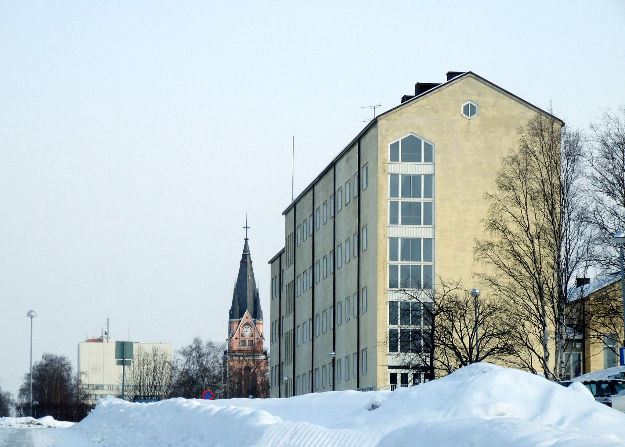 Kemi-Tornio polytechnic Unit of Health Care and Nursing in Kemi, Finland